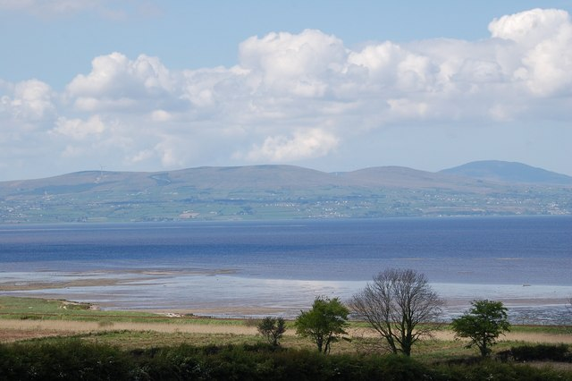 Lough Foyle, the view from a picnic site on its southern shore in CarrickHugh (Carraig-Aedha), a small locality in Co. Derry, Northern Ireland